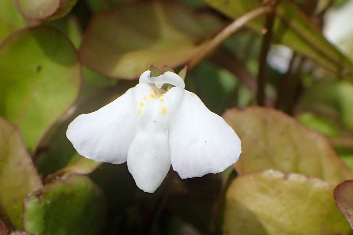 Mazus novaezeelandiae subsp. impolitus in Auckland Botanic Gardens